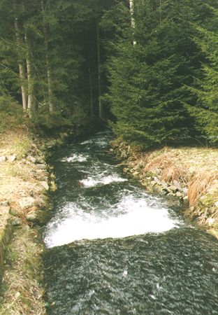 Author: Josef Bílek